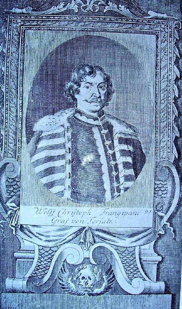 Vuk II Krsto (Wolf II Christopher) Frankopan Tržački (of Tržac) (*c.1578 - †1652), Prince of Krk, Senj and Modruš (Tržac branch), Croatian magnate